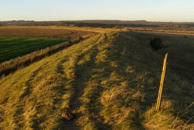 Bokerley Dyke, Martin Down A Romano-British defensive earthwork, with Hampshire on the right and Dorset on the left. The dyke was part of a defensive network to keep the Saxon invaders out the north Dorset area.